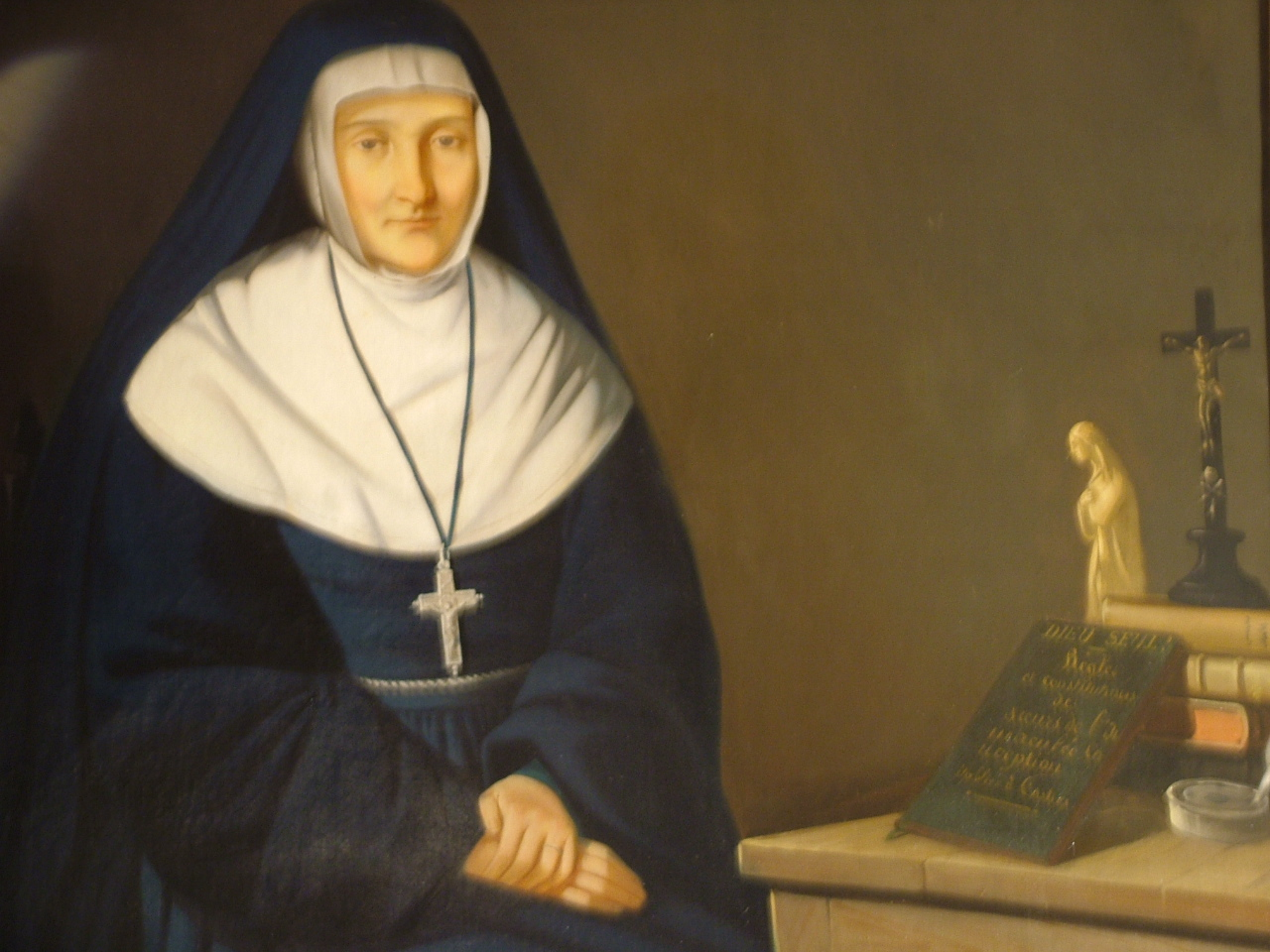 Photo of Jeanne Emilie de Villeneuve